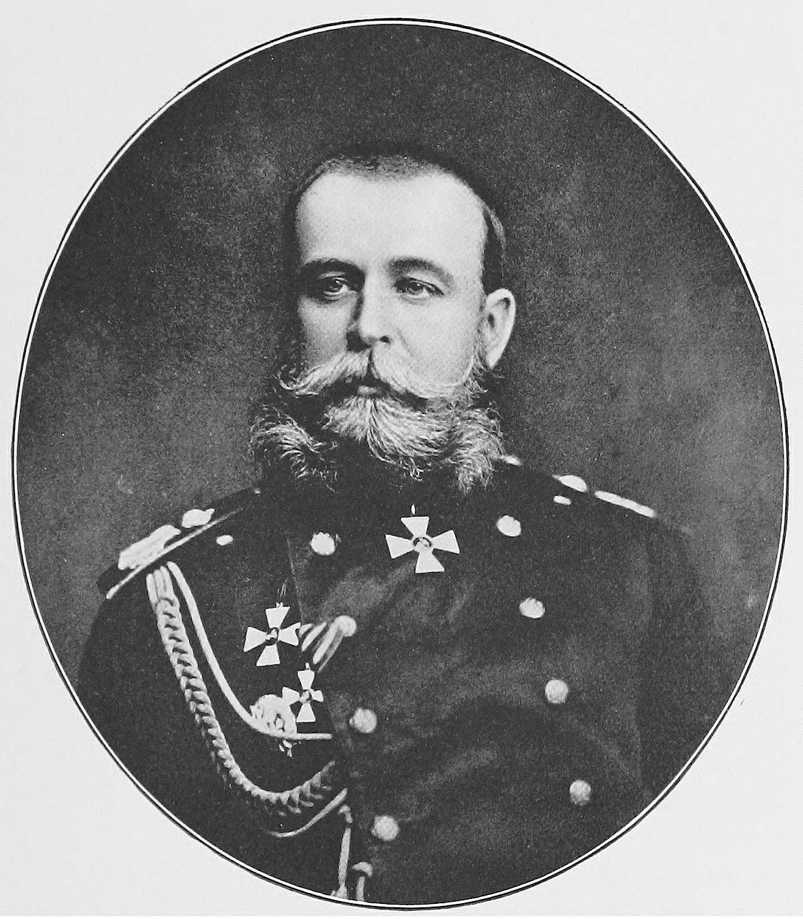 Mikhail Skobelev